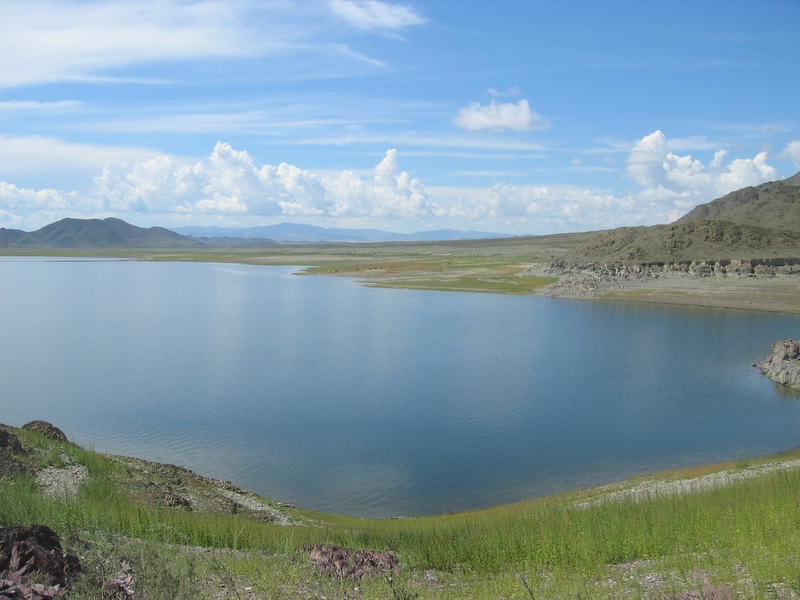 The reservoir of the Sayano–Shushenskaya Dam in Russia.